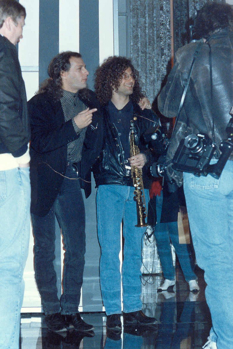 Michael Bolton and Kenny G at Grammy rehearsal 2/20/90 - Permission granted to copy, publish, broadcast or post but please credit "photo by Alan Light" if you can